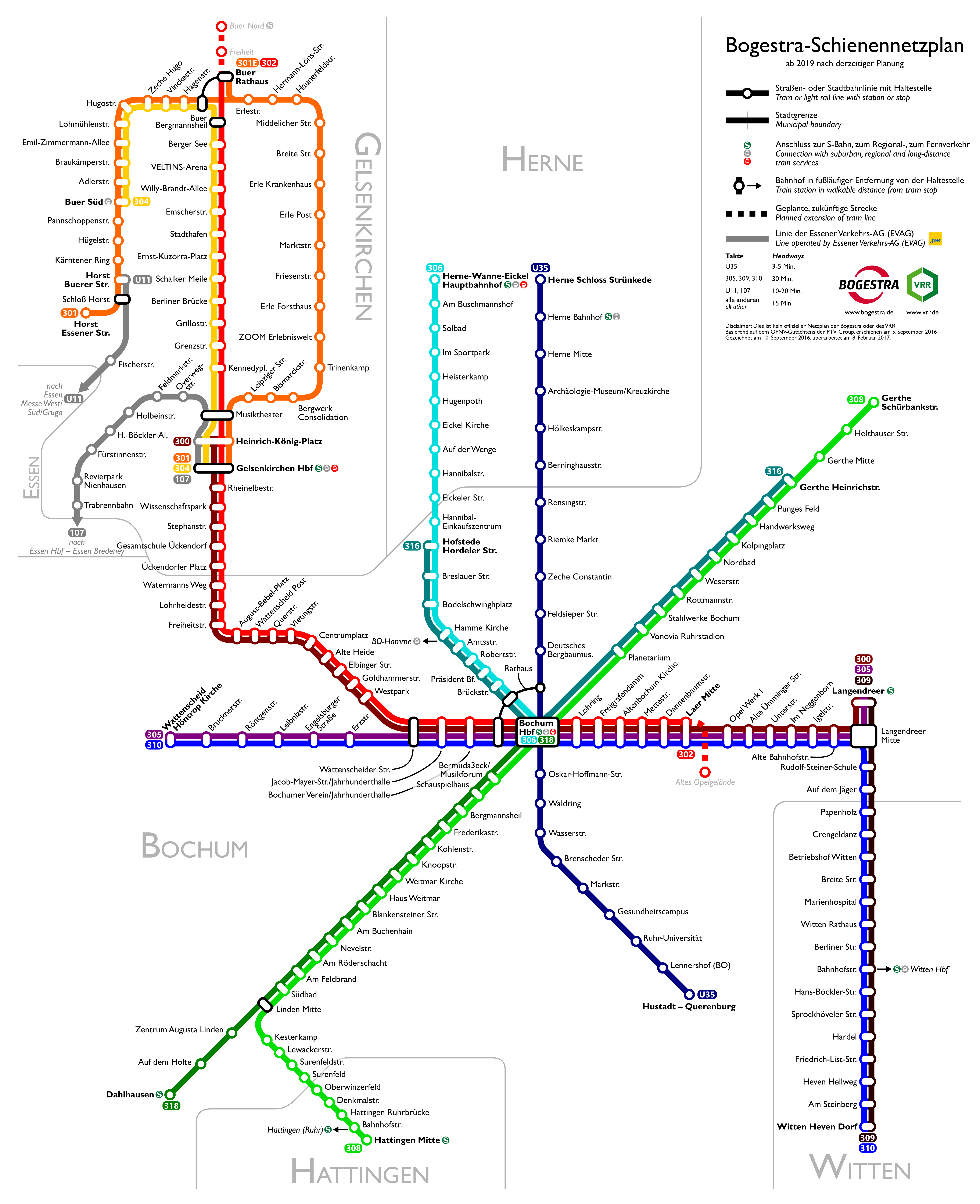 Map of planned tram and light rail services operated by Bogestra for 2019.